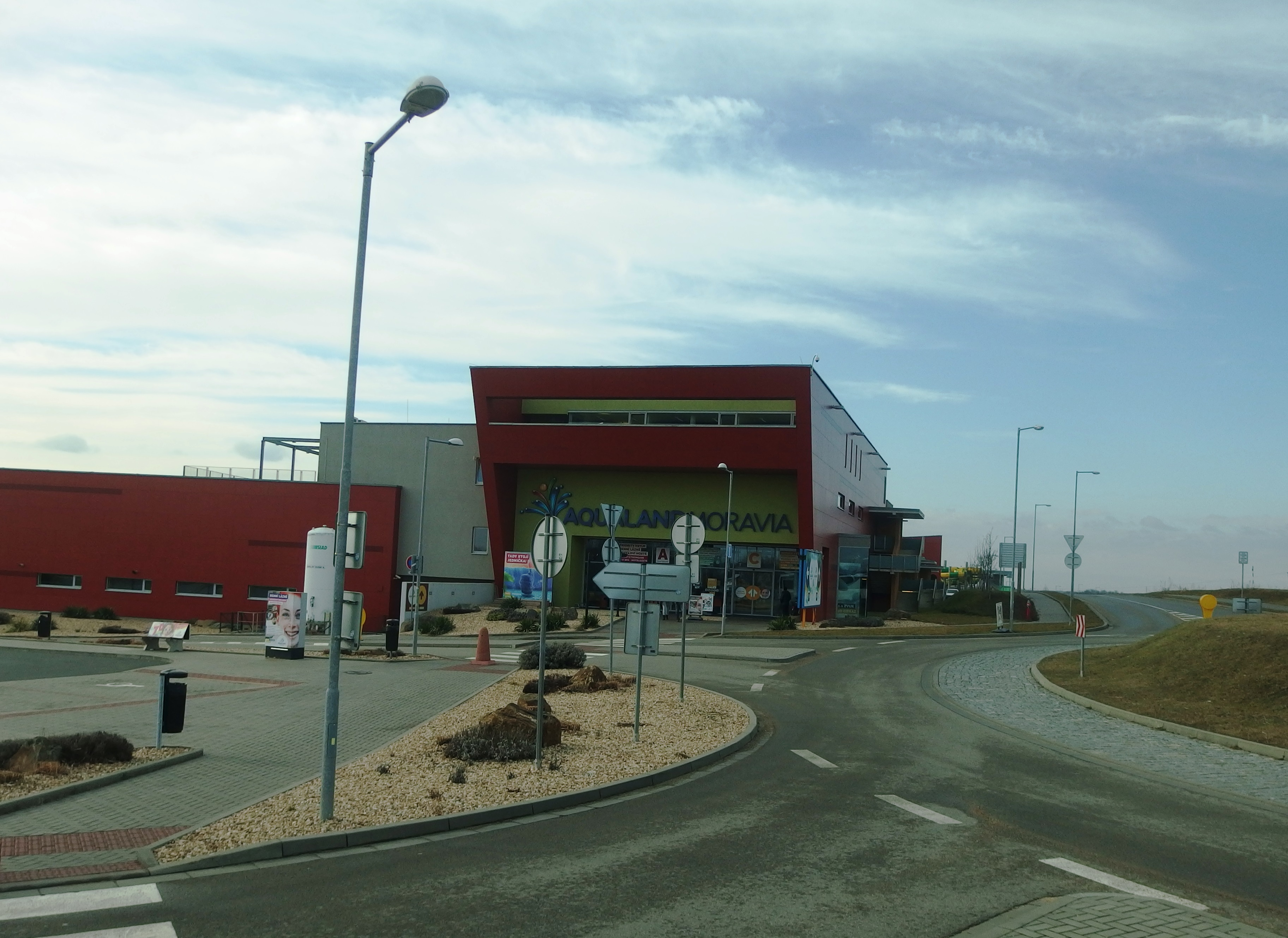 Pasohlávky, Brno-Country District, Czechia.